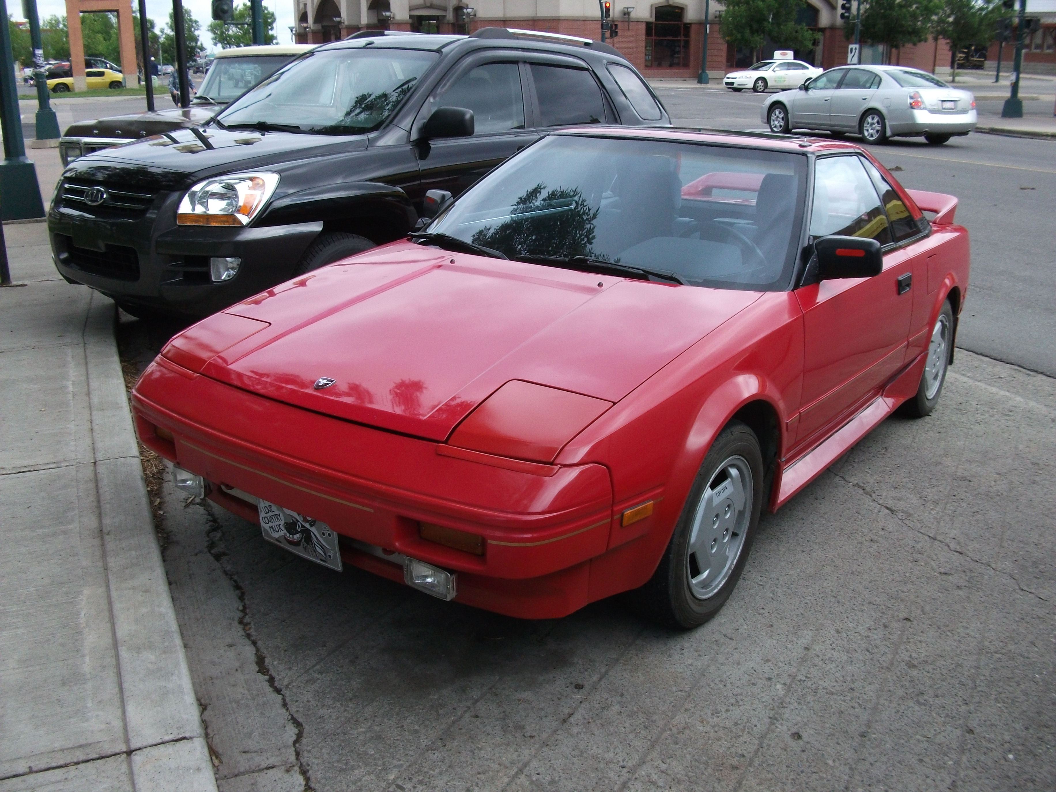 First generation Toyota MR2